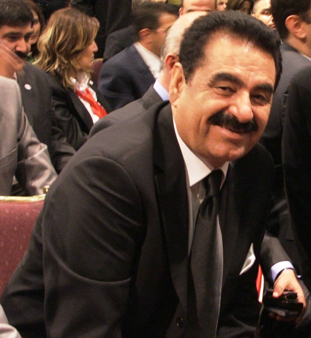 İbrahim Tatlıses at July 8, 2007